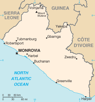 Map of Liberia showing major cities.